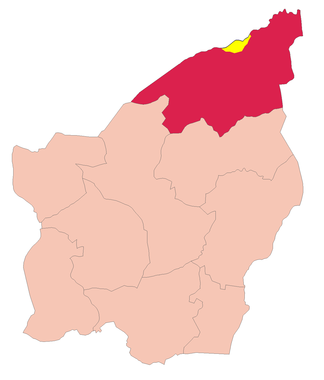 Locator map of Dogana (yellow) into Serravalle municipality (dark red) and San Marino